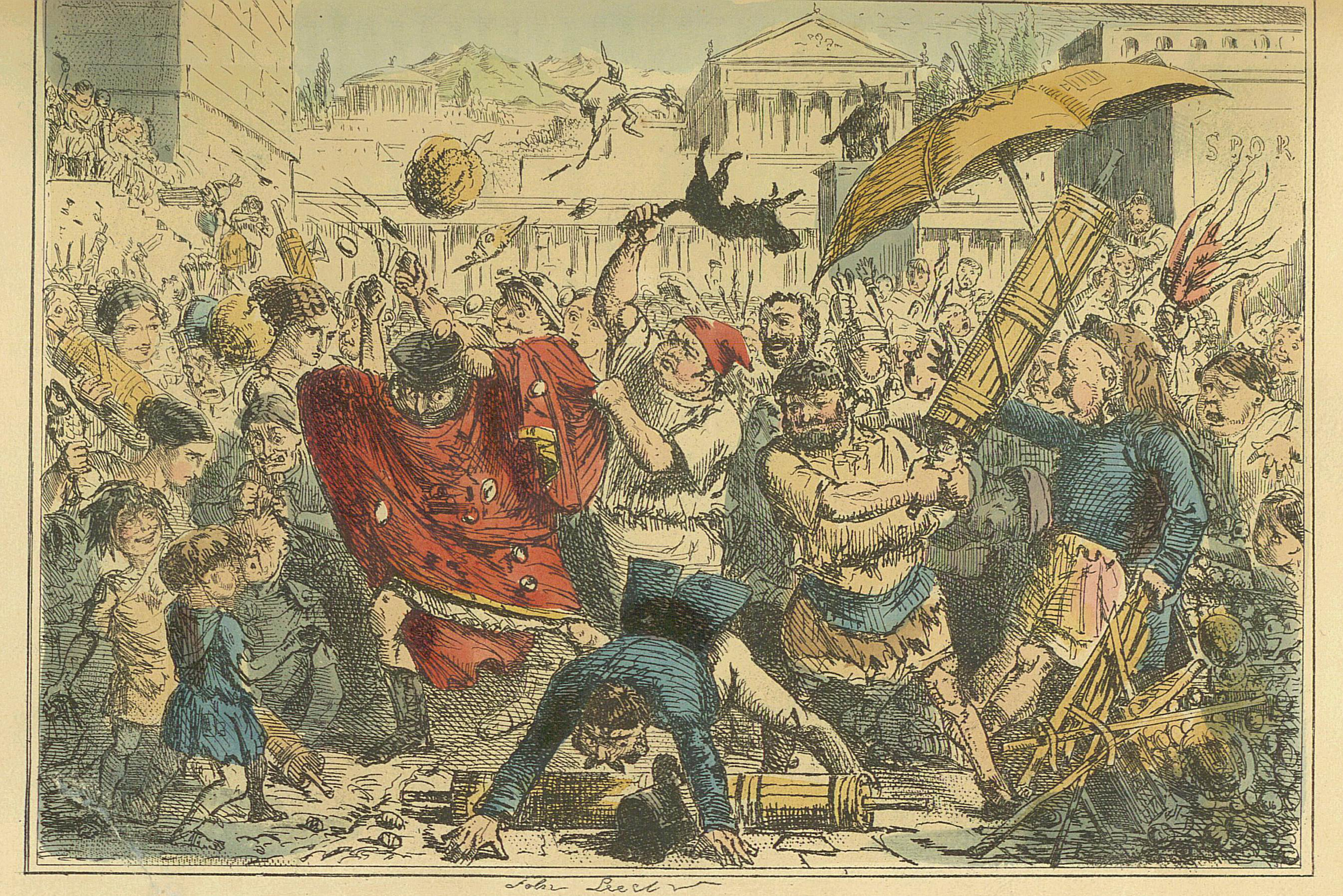 Image by John Leech, from: The Comic History of Rome by Gilbert Abbott A Beckett. Bradbury, Evans & Co, London, 1850s Appius Claudius punished by the People